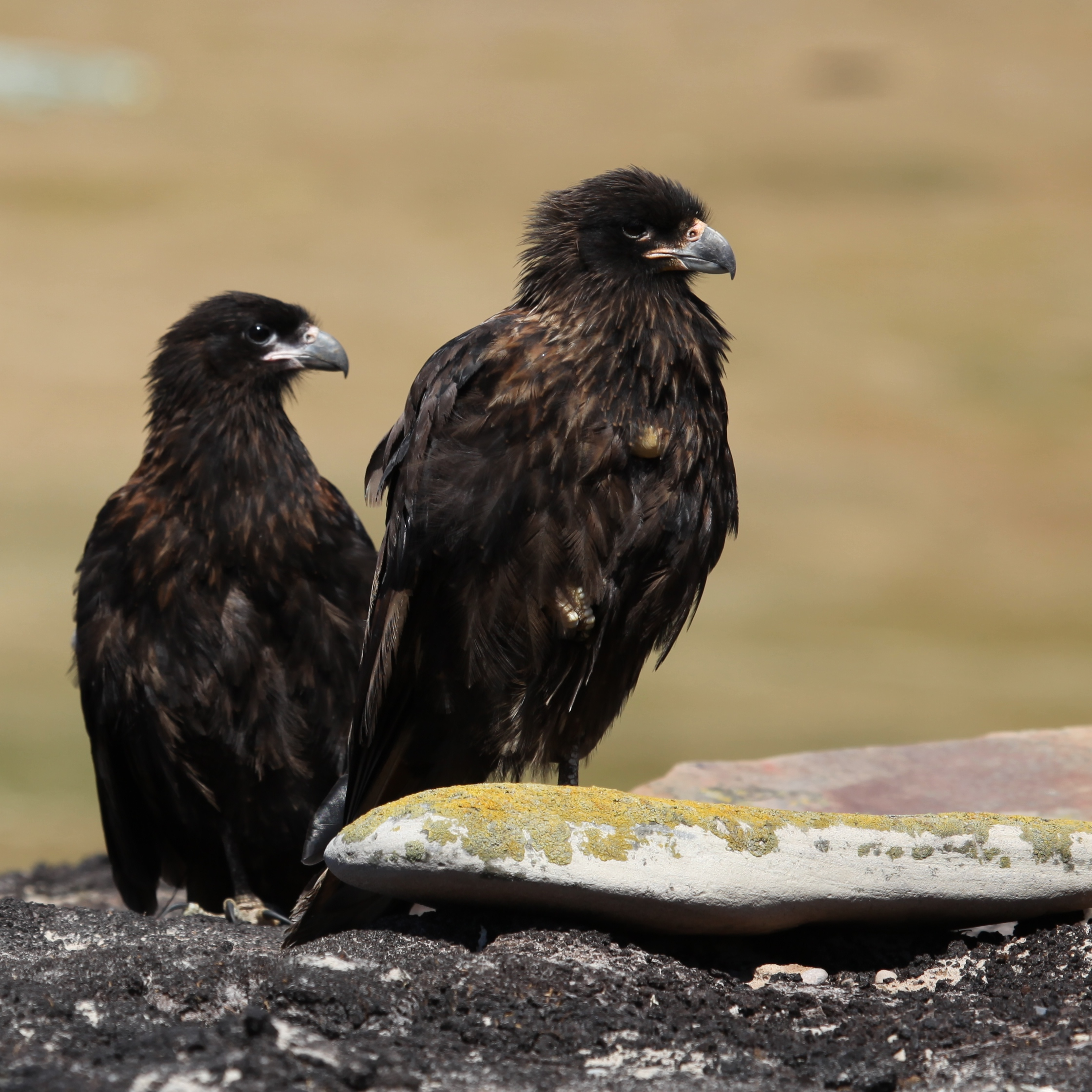 In the Falkland Islands.